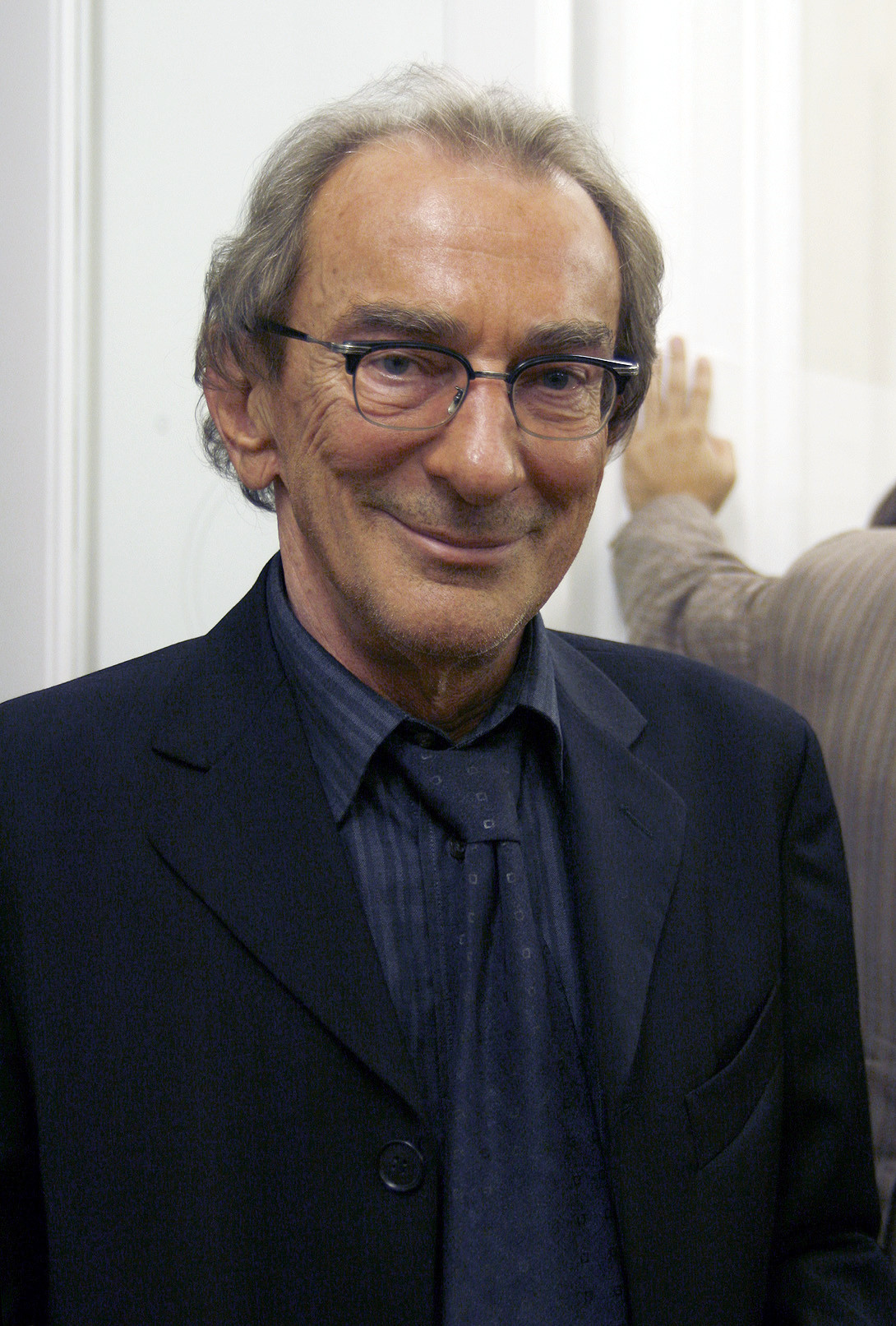 Actor and singer-songwriter Ludwig Hirsch at the Nestroy-Theaterpreis (Etablissement Ronacher, Vienna)